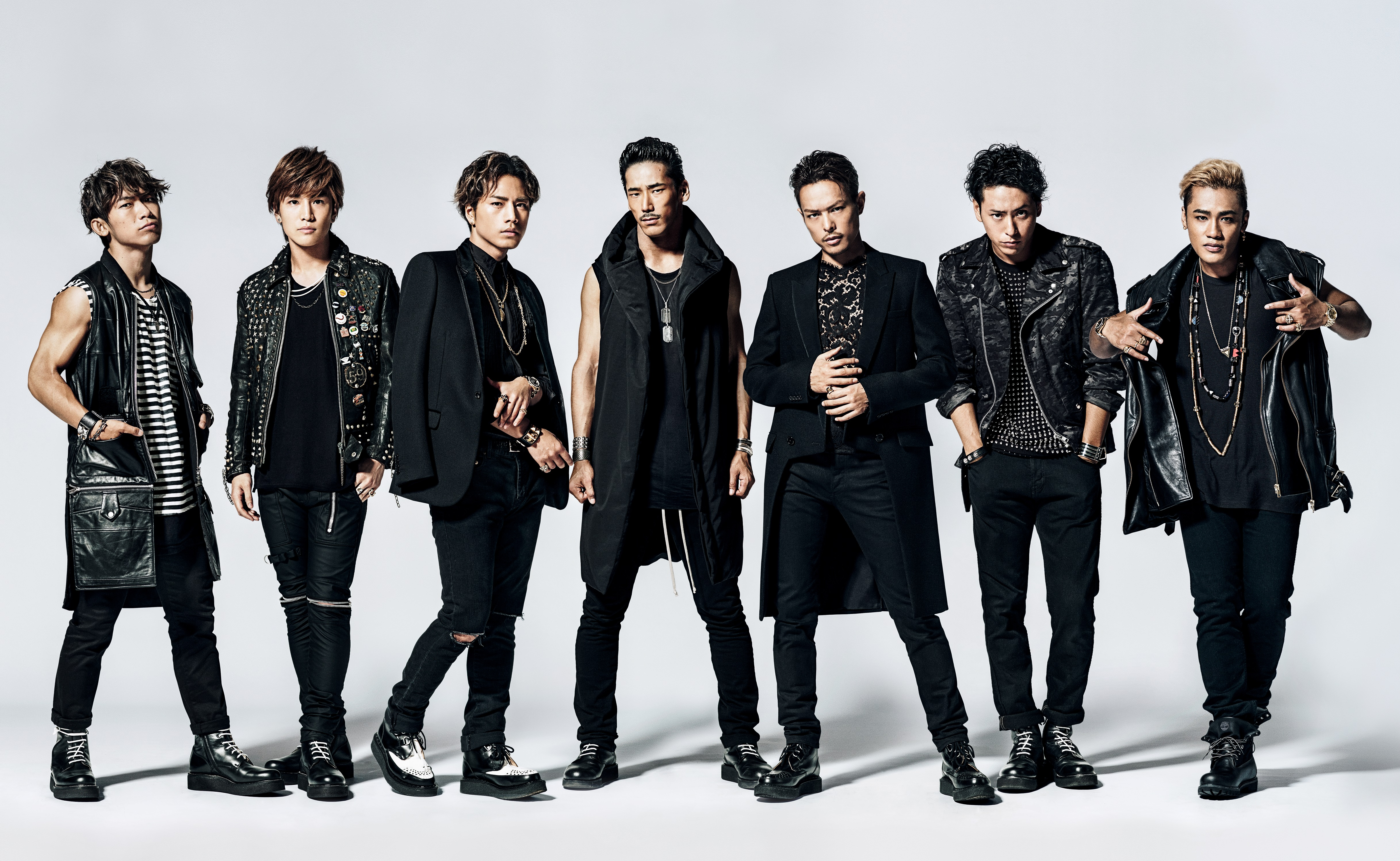 Image of the current line up of Japanese dance group Sandaime J Soul Brothers used to serve as the primary means of visual identification at the top of the article dedicated to the work in question.